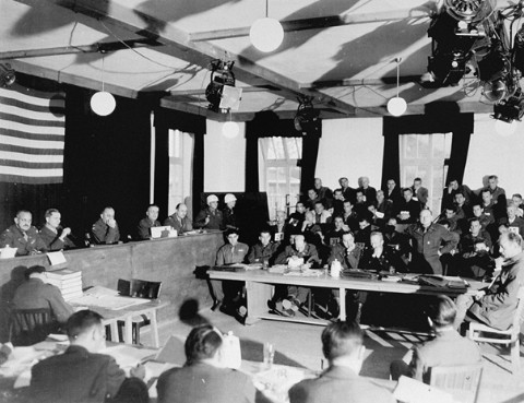 Former SS-Sturmbannfuehrer Friedrich Weitzel, the officer in charge of food and clothing distribution in the camp, testifies at the trial of former camp personnel and prisoners from Dachau.